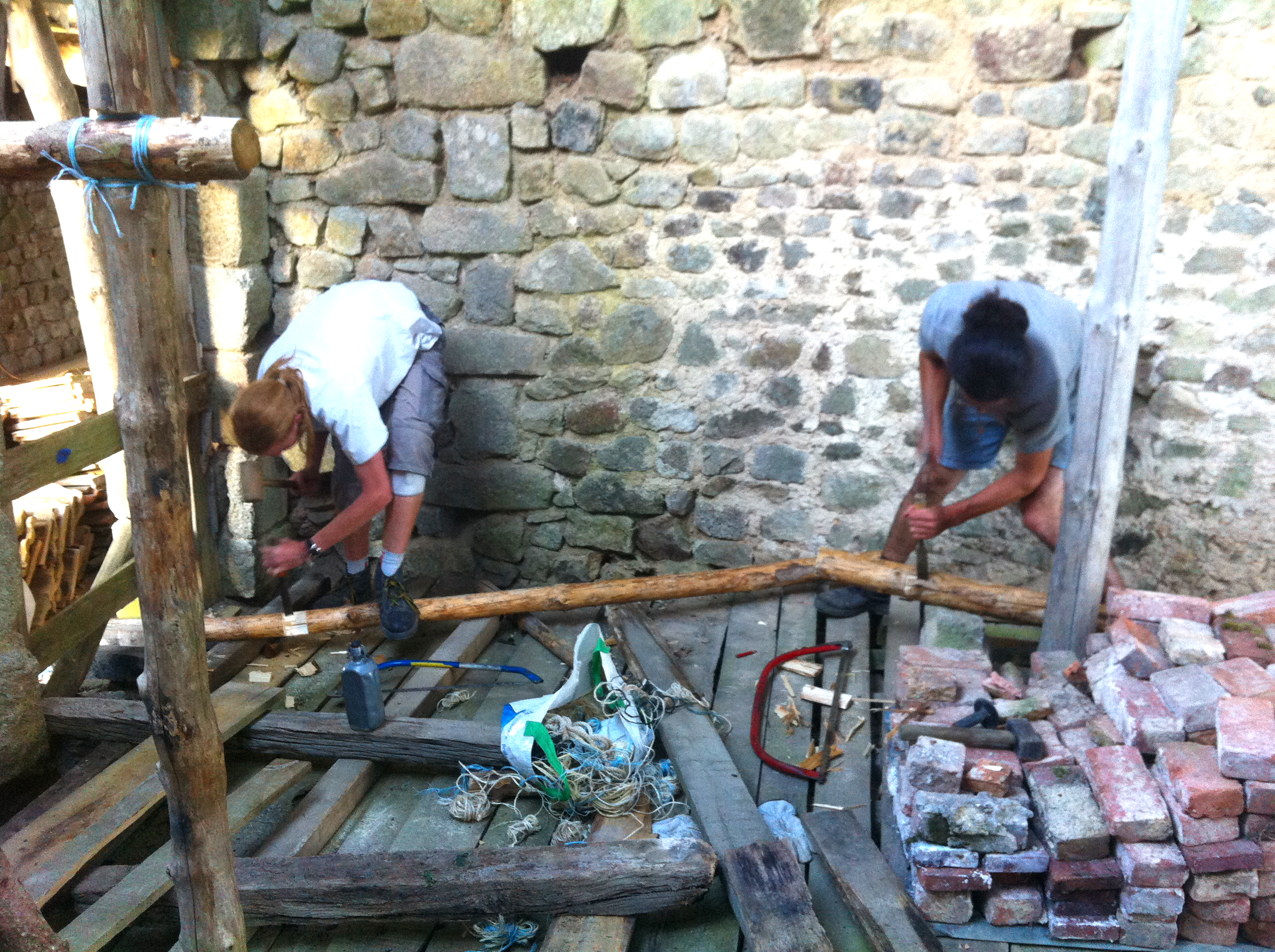 Château de Magnat - Construction Echaufaudages bois